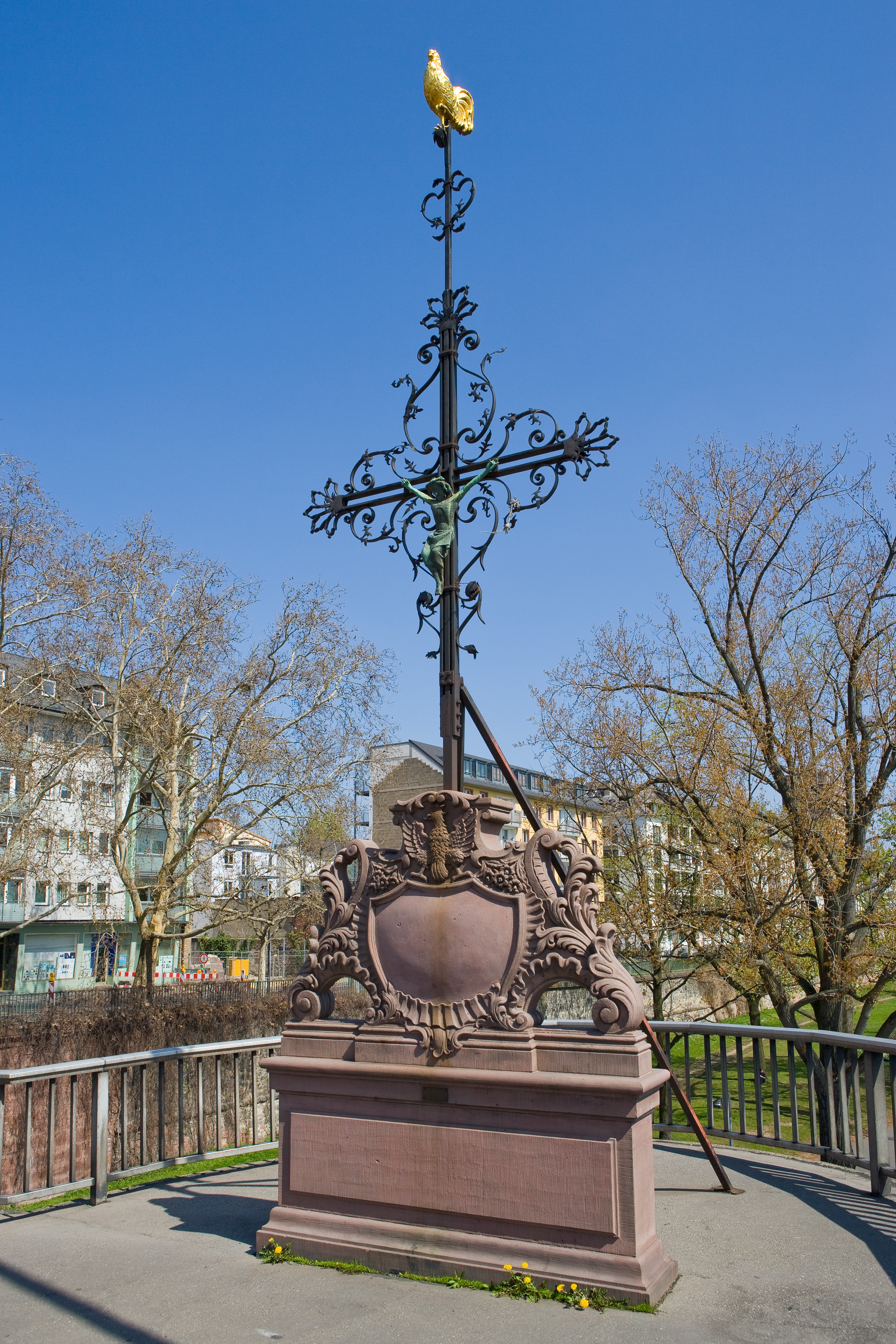 Frankfurt on the Main: Alte Bruecke (Old Bridge), long shot of the Brickegickel